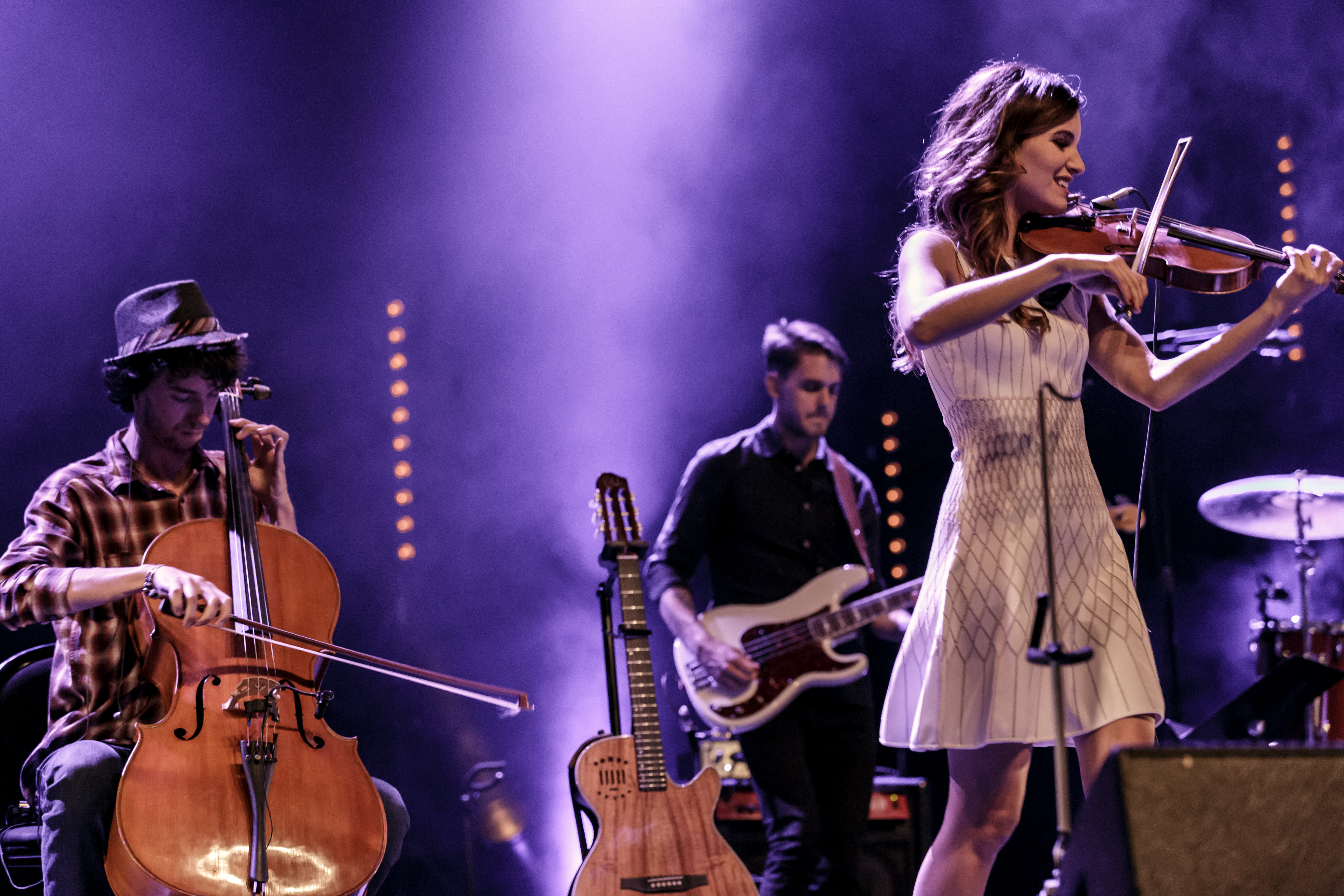 Gabriella Laberge, singer from Montréal, on stage during Cornouaille Festival (Quimper, Brittany) July 21, 2016.